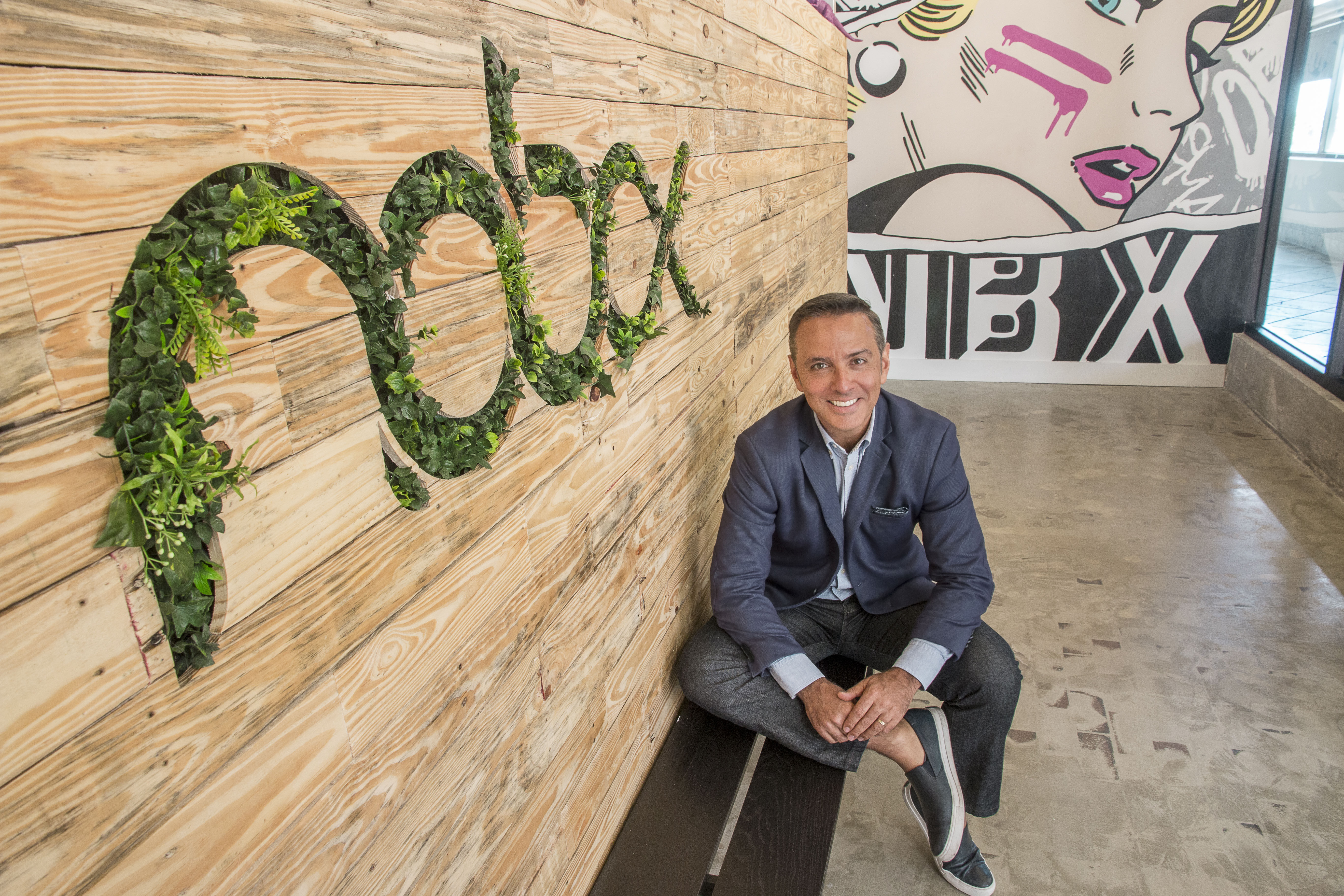 Alexandre Hohagen is an investor and board advisor with more than 20 years of experience in technology and media in Latin America and US Hispanics. Until June of last year, Hohagen was the Vice President for Facebook in Latin America & US Hispanics, position he held since February 2011. Before Facebook, Hohagen was responsible for initiating Google's operations in Latin America and the first Latin-American to hold a VP position in both companies. Between 2005 and 2011 he led the company's operations in more than 20 countries with offices in Argentina, Brazil, Chile, Colombia, Peru and Mexico.